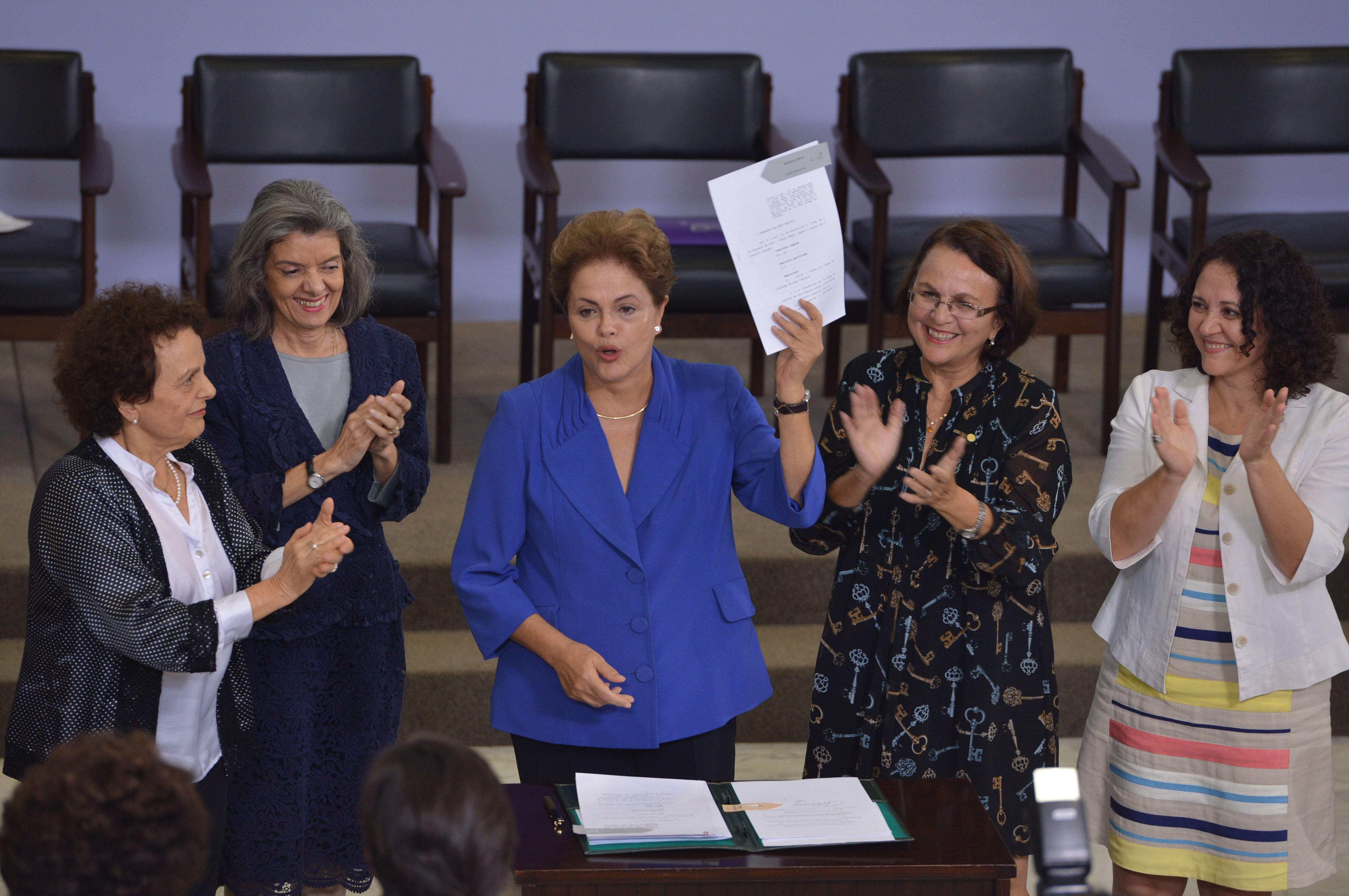 Photo by Valter Campanato/Agência Brasil/CCBY3.0